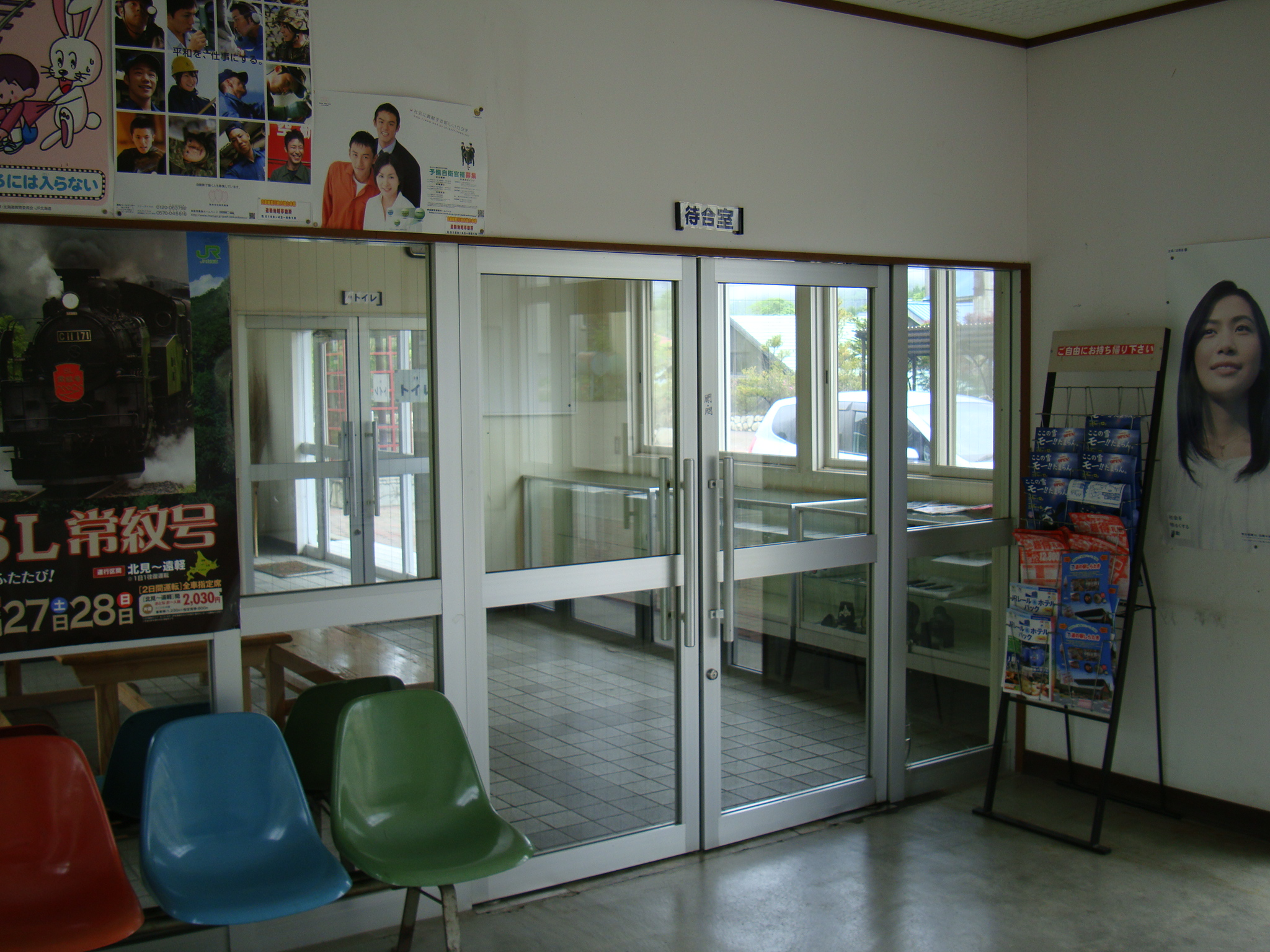 Shirataki Station